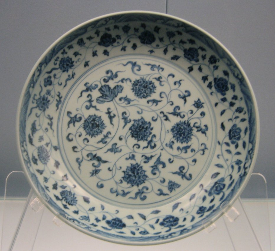 Dish with underglaze blue design of interlaced flowers, Jingdezhen ware, Xuande Reign 1426-1435, Ming, Shanghai Museum